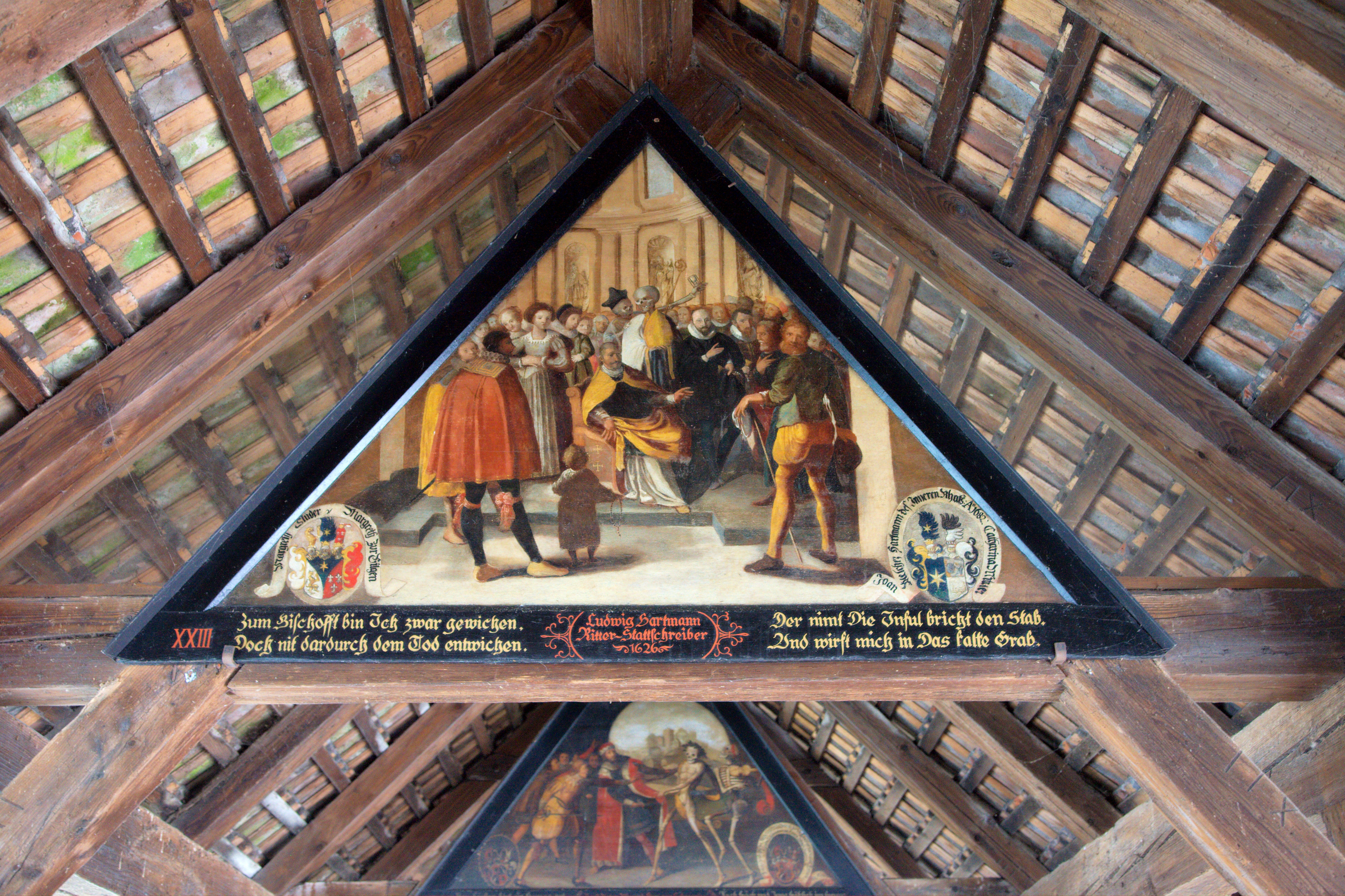 Painting of the Spreuerbrücke in Lucerne